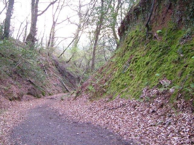 Part of the probably medieval Holloway Lane that climbs the Haldon Hills in South Devon, England